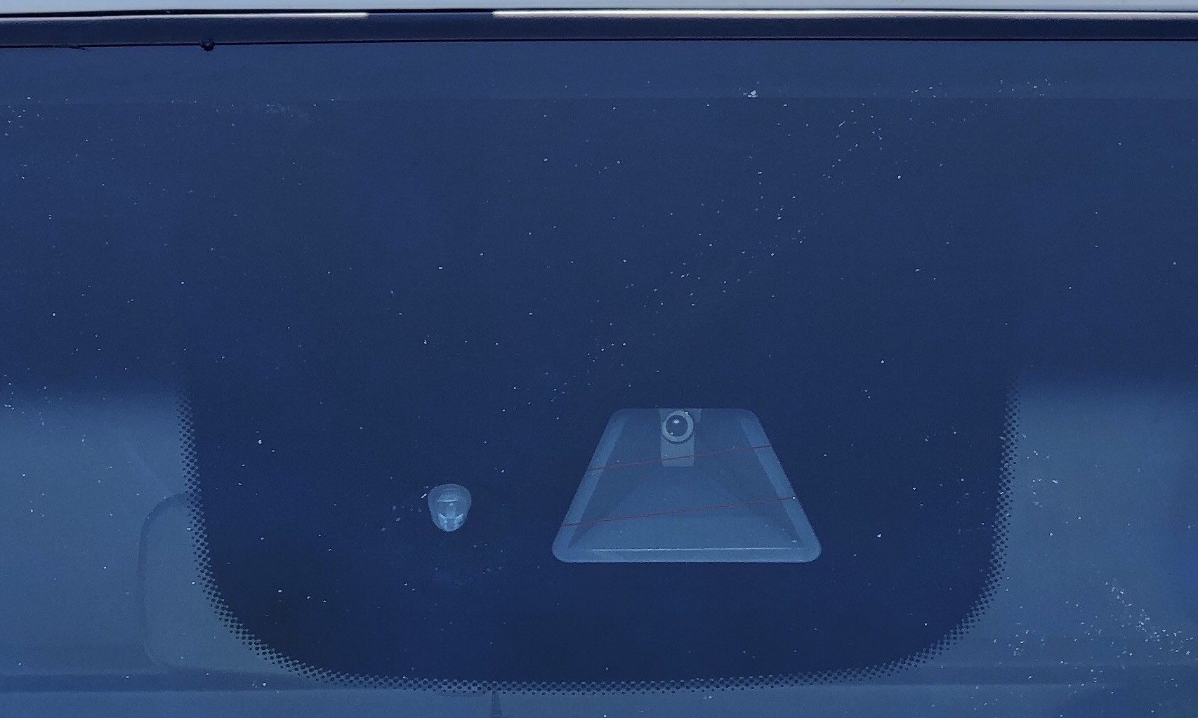 Brake assist camera on a windscreen.